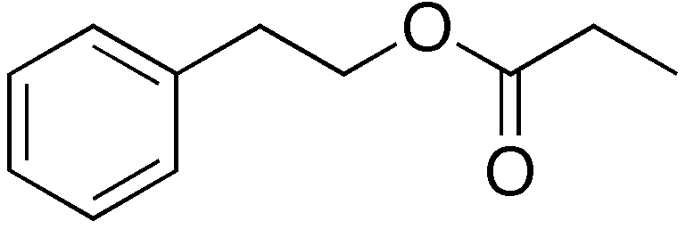 chemical structure of 2-phenethyl propionate